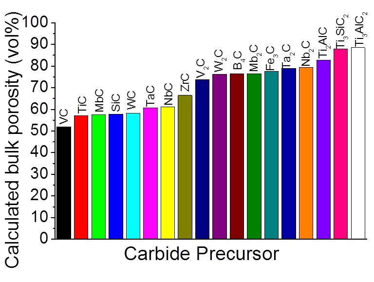 PSD of CDCs